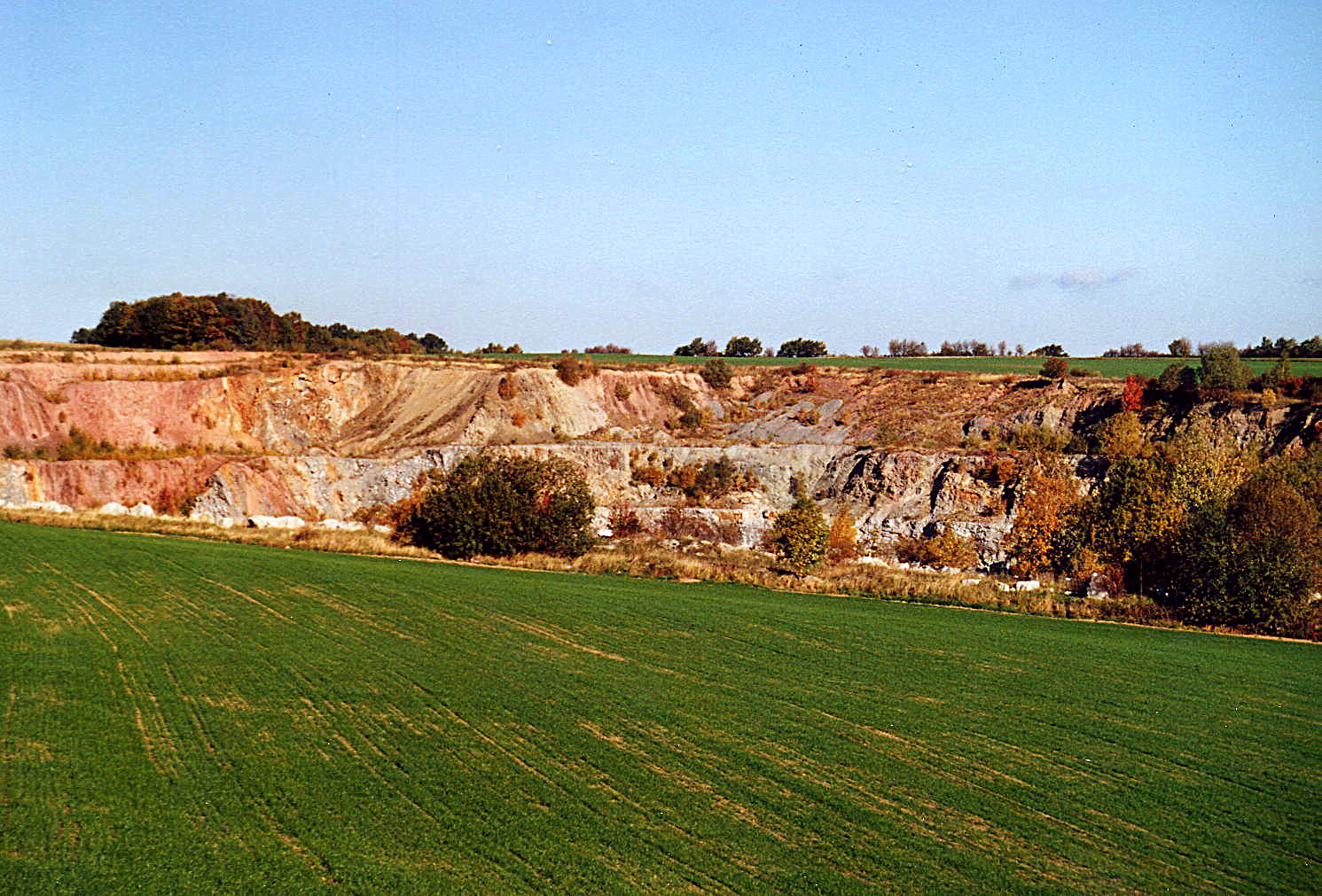 Bahretal: This image shows the quarry in Borna in Saxony, Germany.